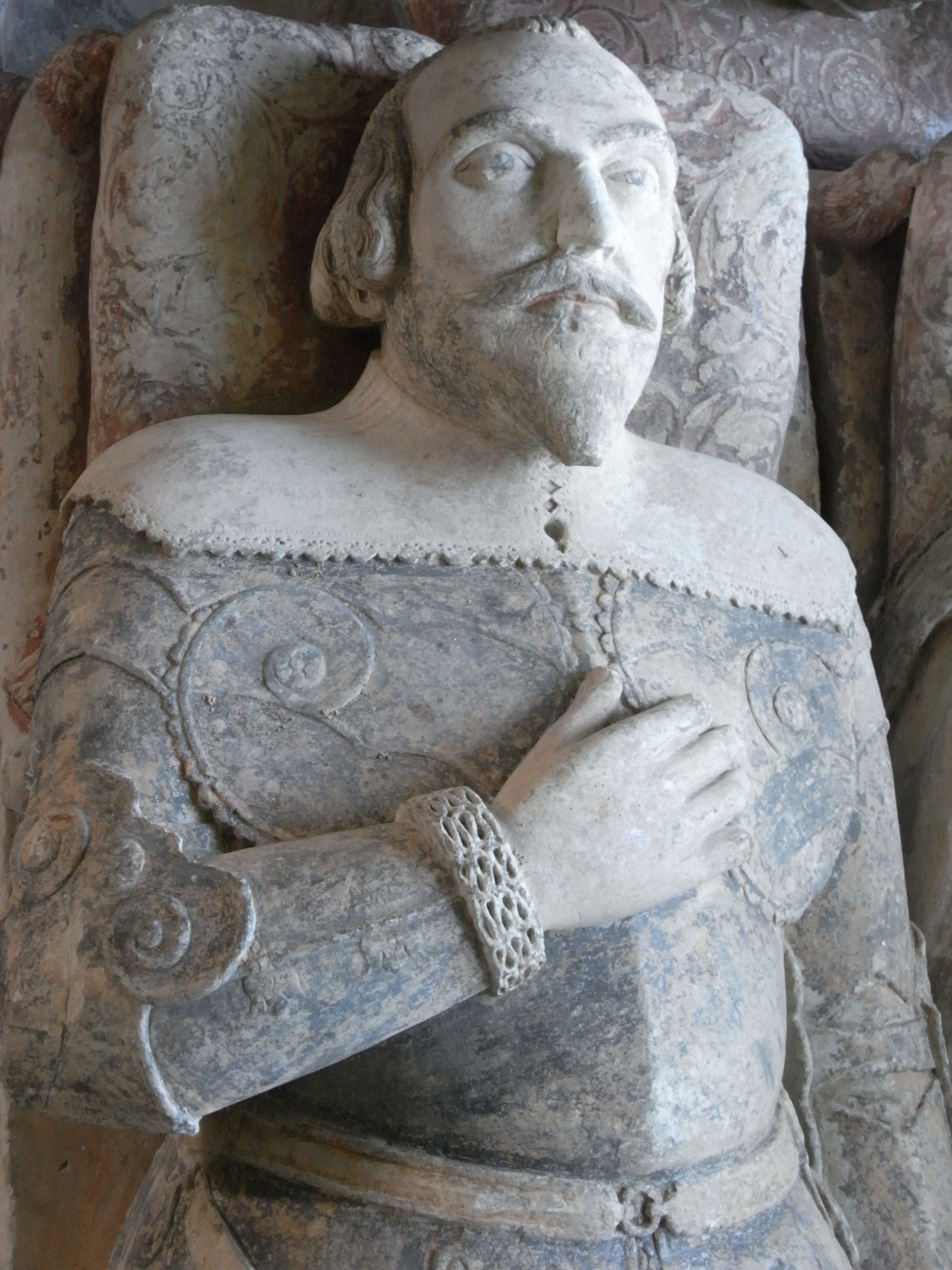 Detail of effigy of Sir Simon Leach (1567-1638) of Cadeleigh, Devon, Sheriff of Devon in 1624, St Bartholomew's Church, Cadeleigh.